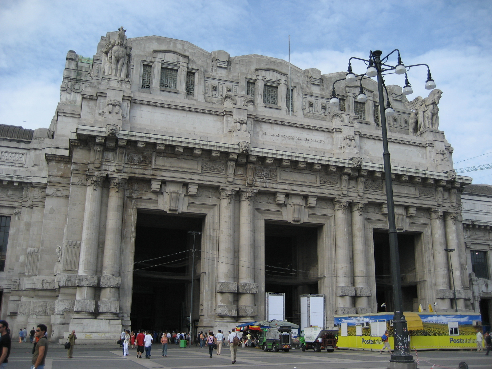 The facade of the Central train station in Milan, Italy.